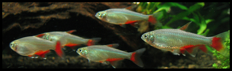 A group of Bloodfin tetras.